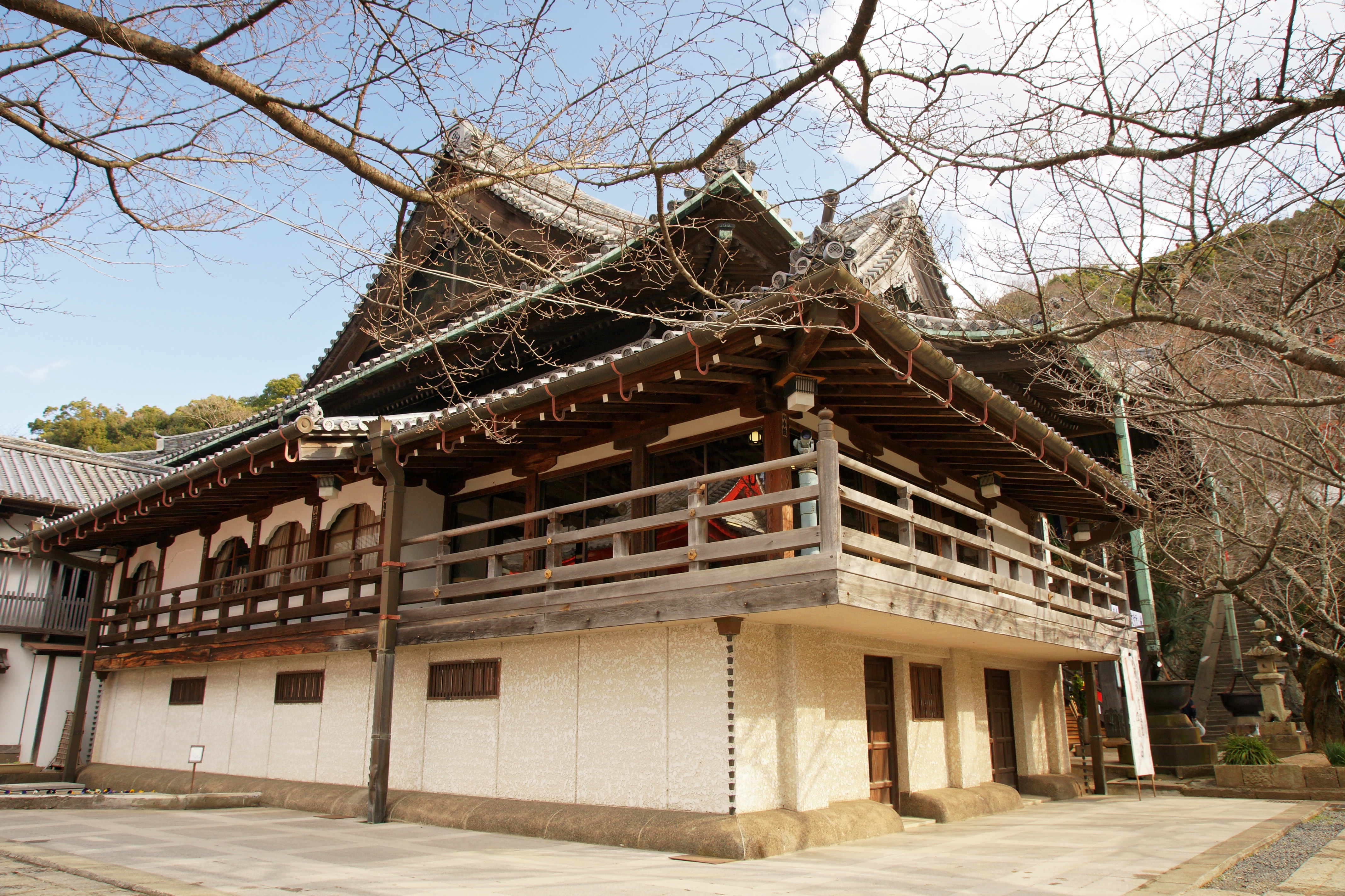 Kimiidera in Wakayama, Wakayama prefecture, Japan